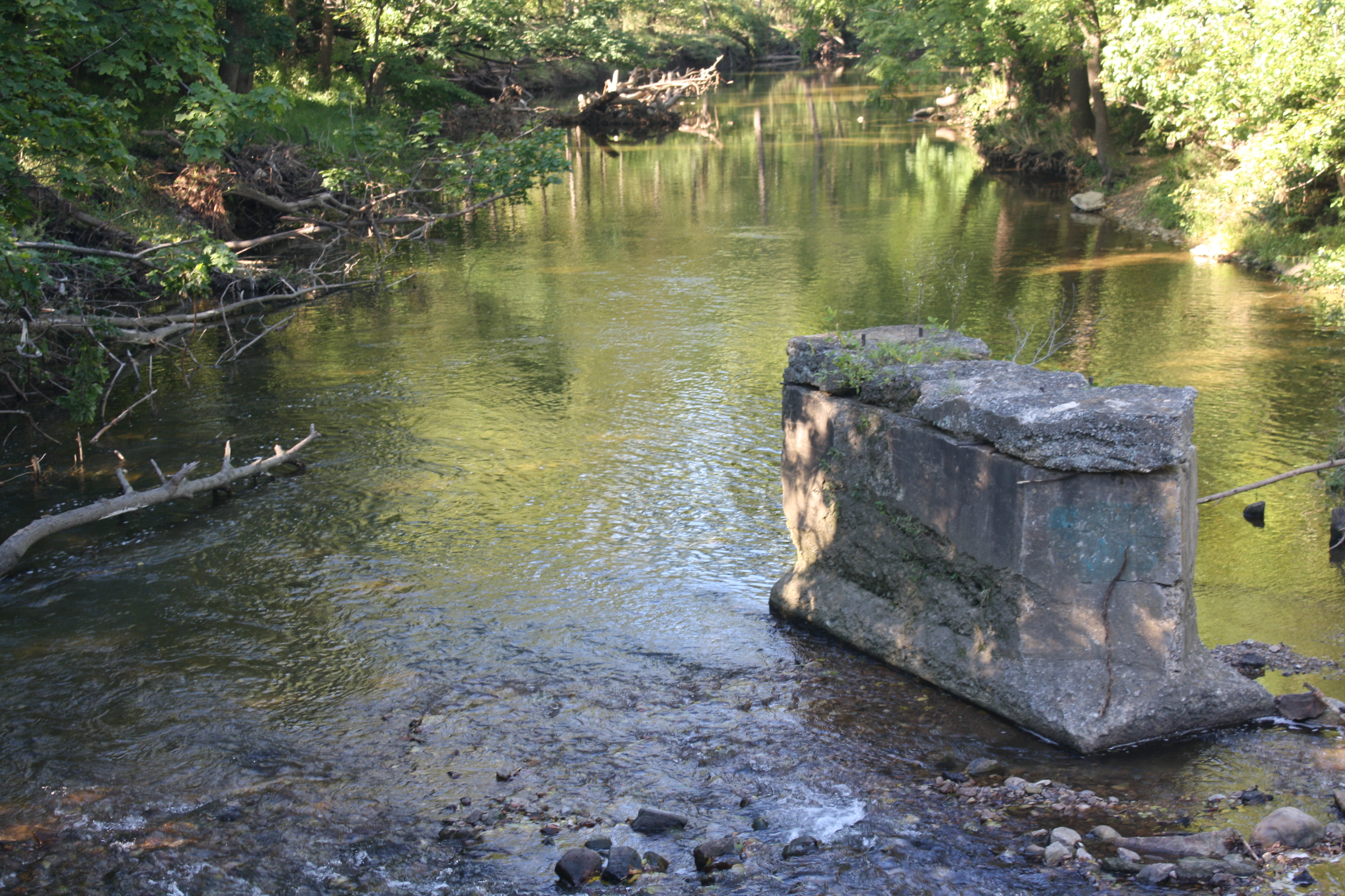 Saucon Creek in Hellertown, Pennsylvania. View from Friedensville Road bridge, old bridge ruins are visible. Heading north.